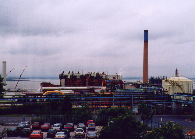 ICI Weston Point Power station. This CHP(Combined heat and power station)was originally built around 1920. It supplies the large chemical works near Weston point,Runcorn.